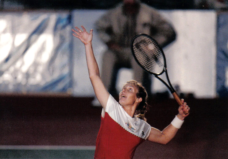 Dianne Fromholtz-Balestrat hitting a serve during a World Team Tennis match for the Portland Panthers, 1989.